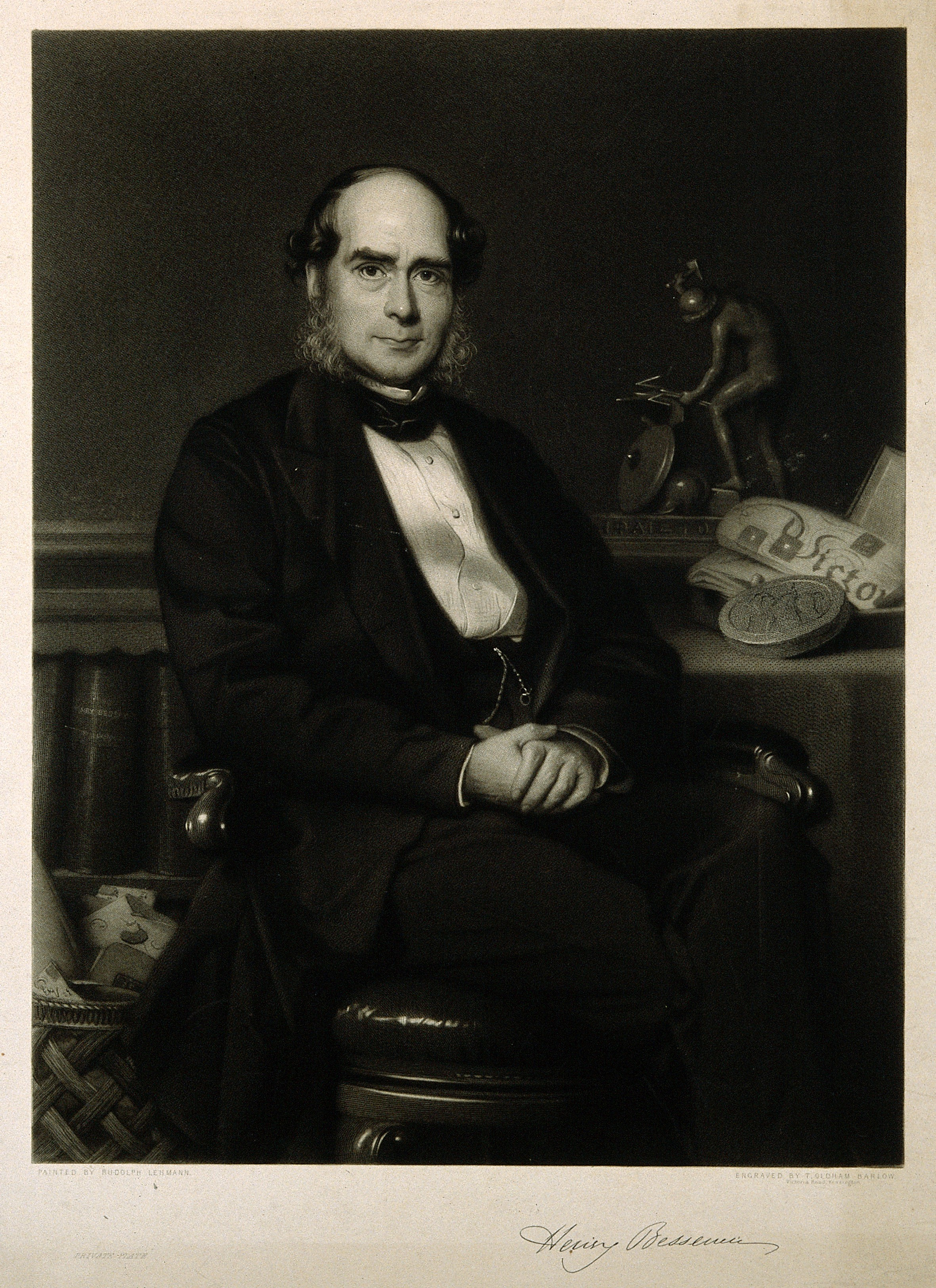 Sir Henry Bessemer. Mezzotint by T. O. Barlow after R. Lehmann. Iconographic Collections Keywords: portrait prints; Henry Bessemer; mezzotints; Thomas Oldham Barlow